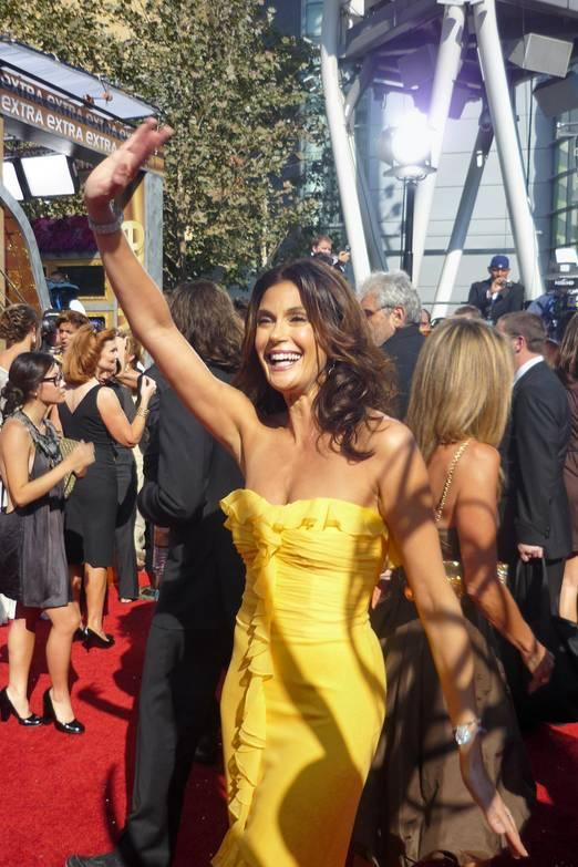 Actress Teri Hatcher (star "Desperate Housewives") at 60th Primetime Emmy Awards